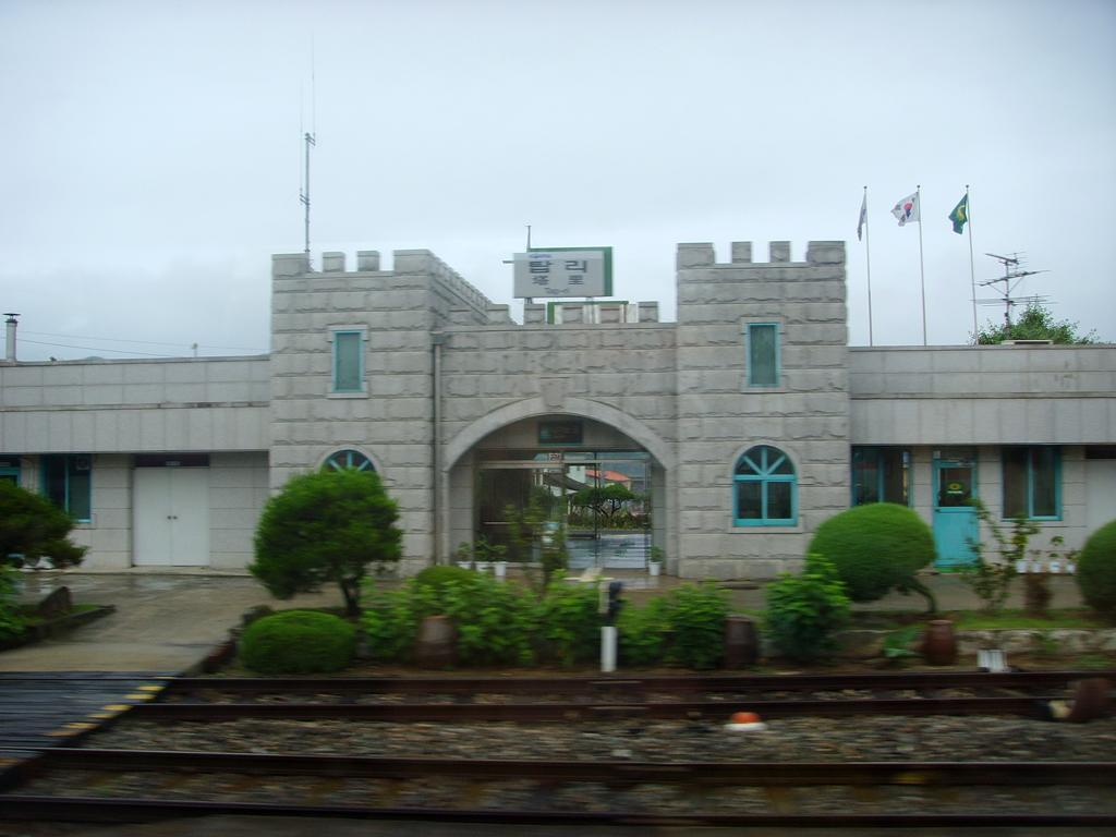 Jungang Line Tap-ri Station